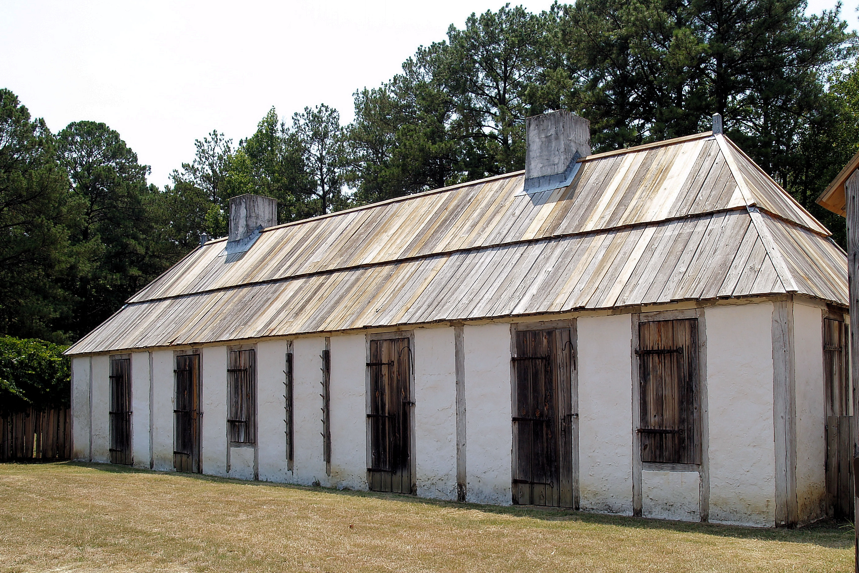 Fort Toulouse reconstruction near Wetumpka, Alabama. This was the easternmost fort (in what is now the United States) established by colonial French Louisiana. It was first built in 1717.